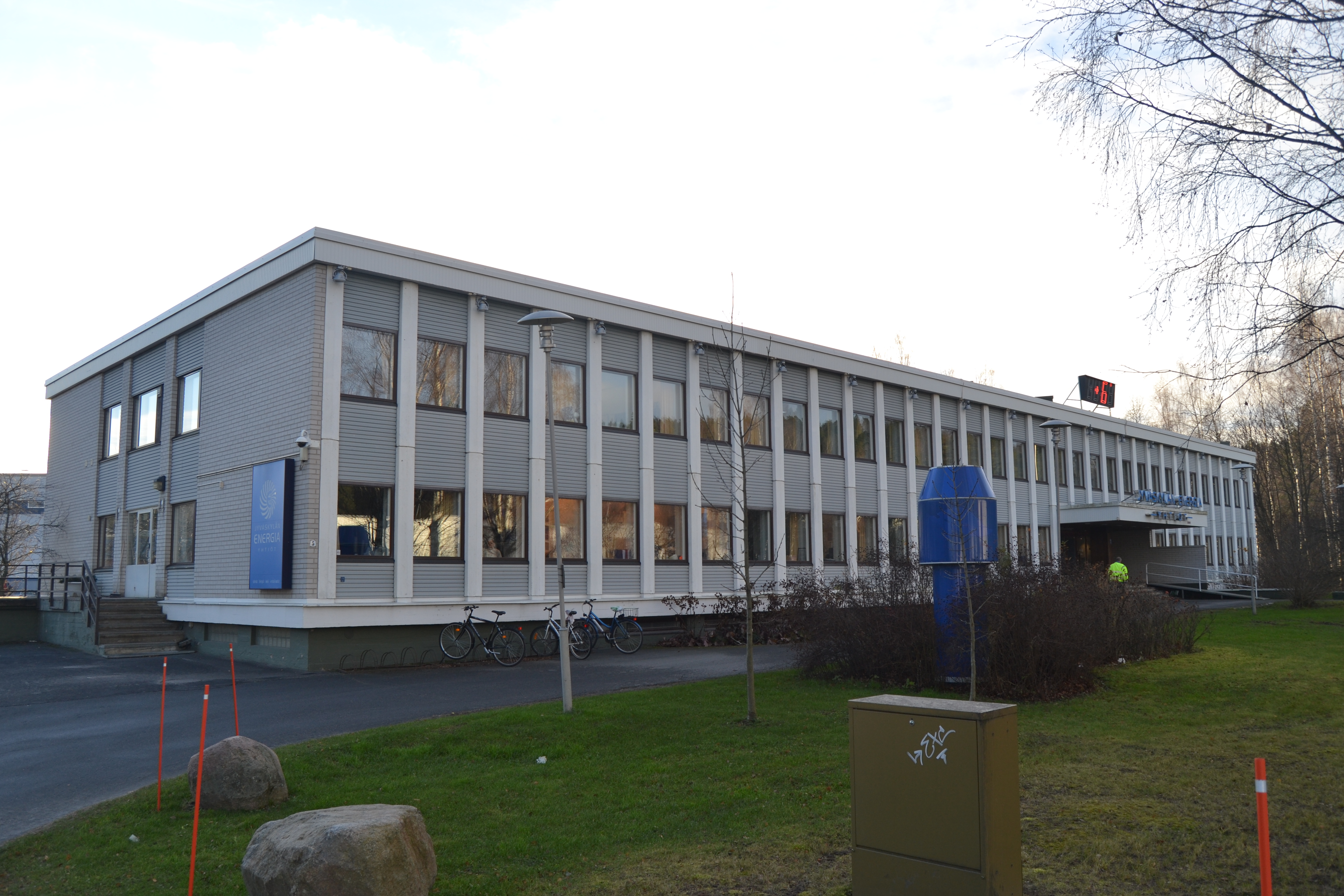 Jyväskylän Energia headquarters in Jyväskylä, Finland